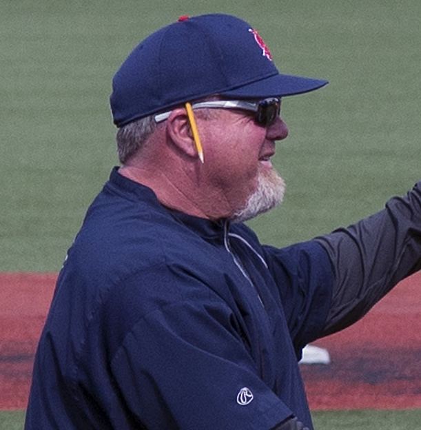 Fresno State baseball head coach Mike Batesole before a game at Air Force.